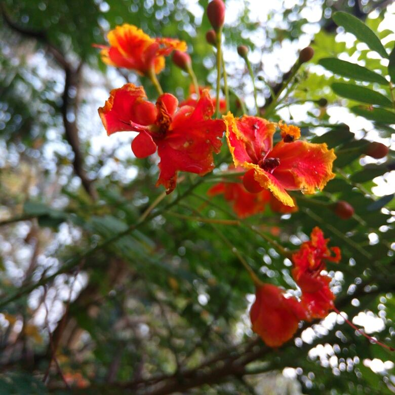 Caesalpinia pulcherrima has some unique combination of color in its petal.